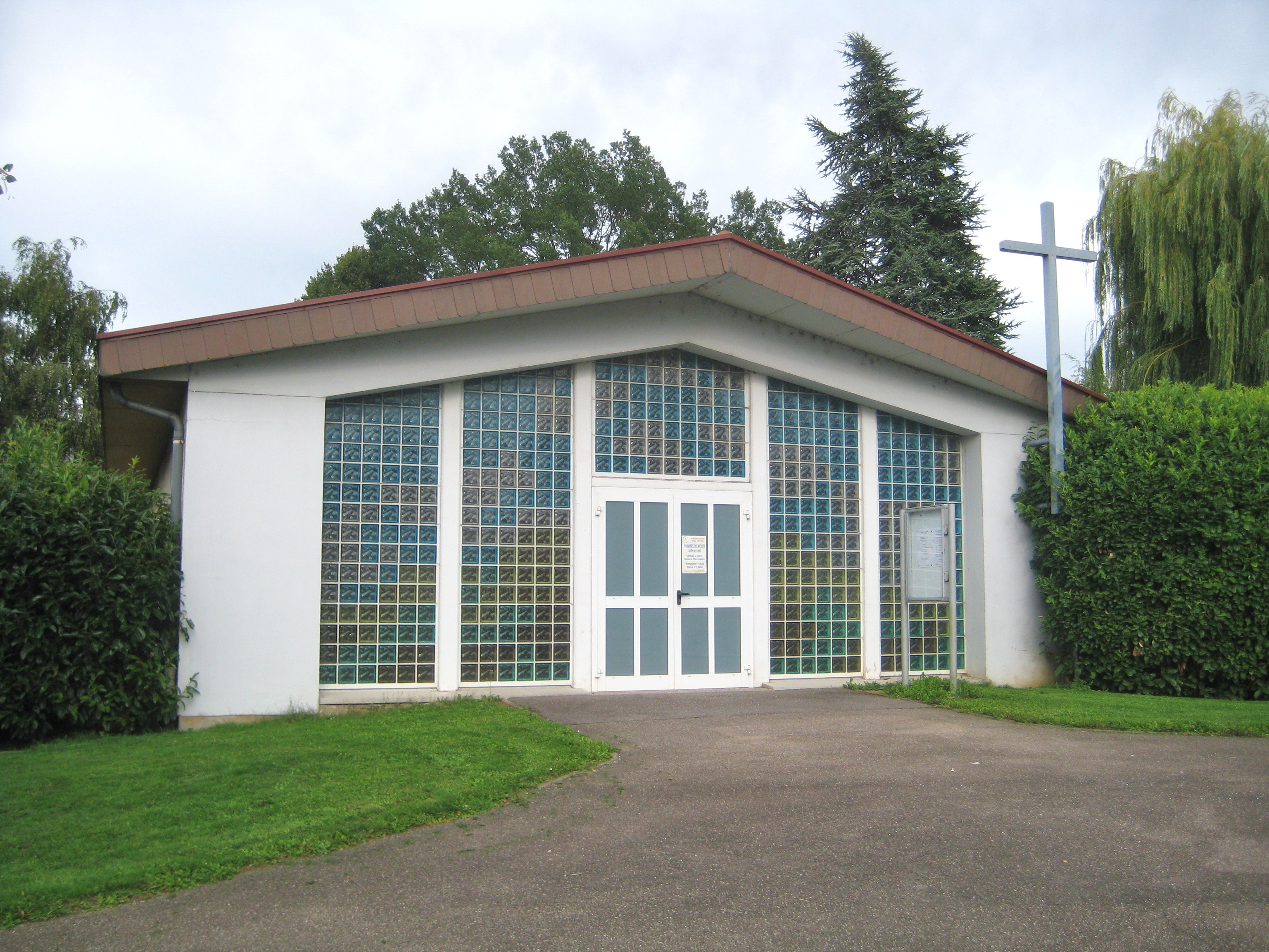 Description chapelle villers rombas Date29 August 2011Sourcemon appareil photoAuthorAimelaimePermission(Reusing this file) chapelle villers rombas